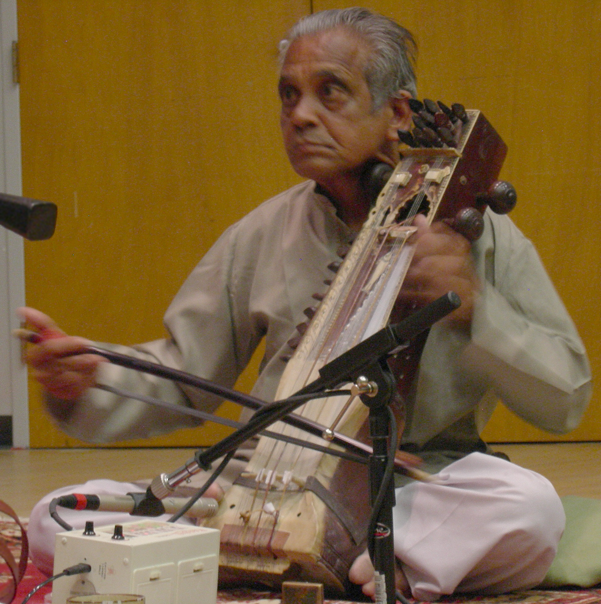 Anant Kunte playing the sarangi, accompanying Shruti Sadolikar Katkar in a concert in the Ragamala series, Brechemin Auditorium, Music building, University of Washington, Seattle, Washington. Image has been somewhat retouched, but nothing major.